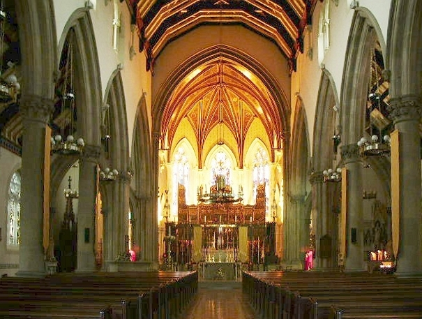 Interior of St Peter's Cathedral, Lancaster